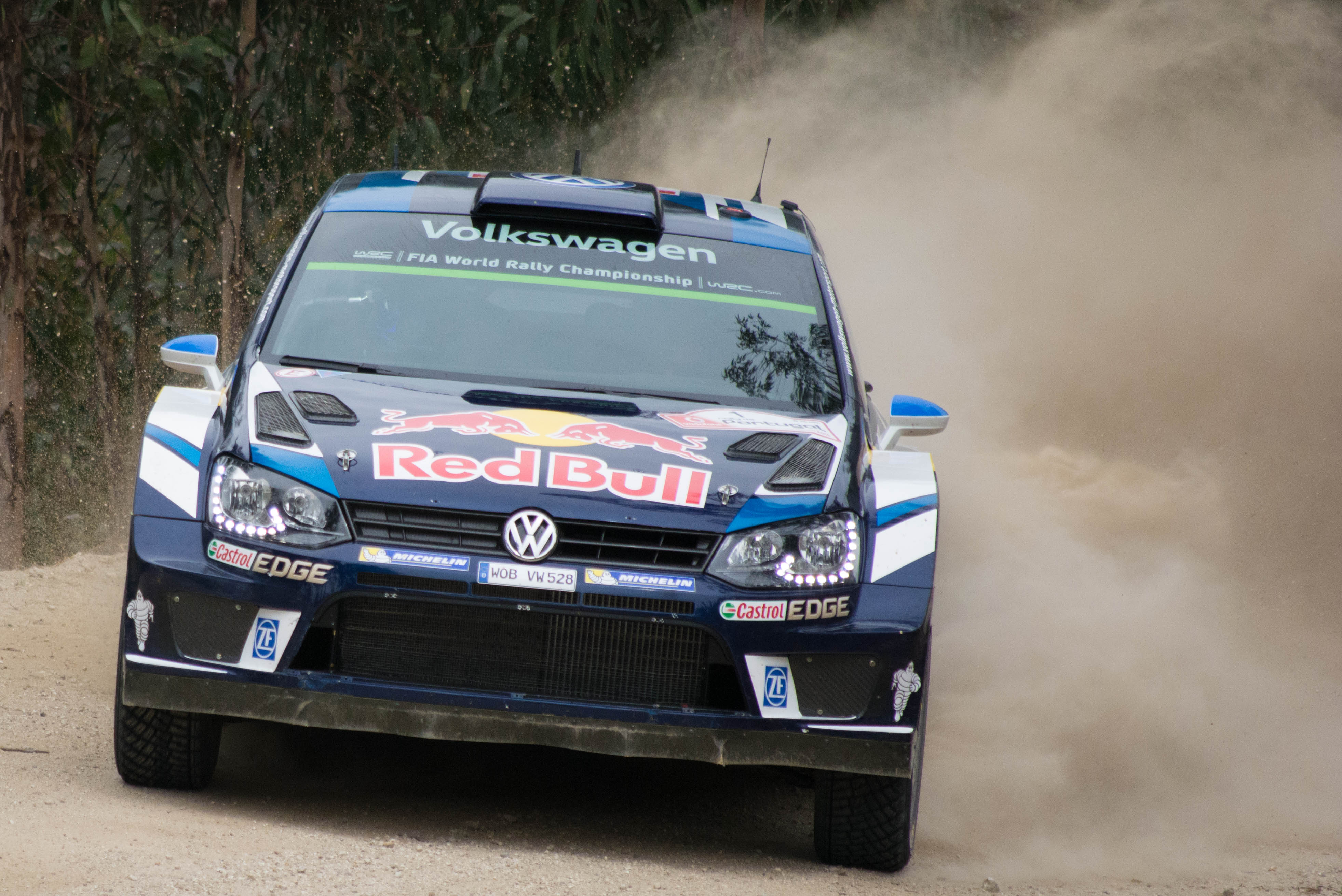 Rally of Portugal 2016. Section of "Amarante", on the first pass